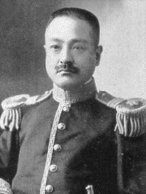 Enkichi Oki